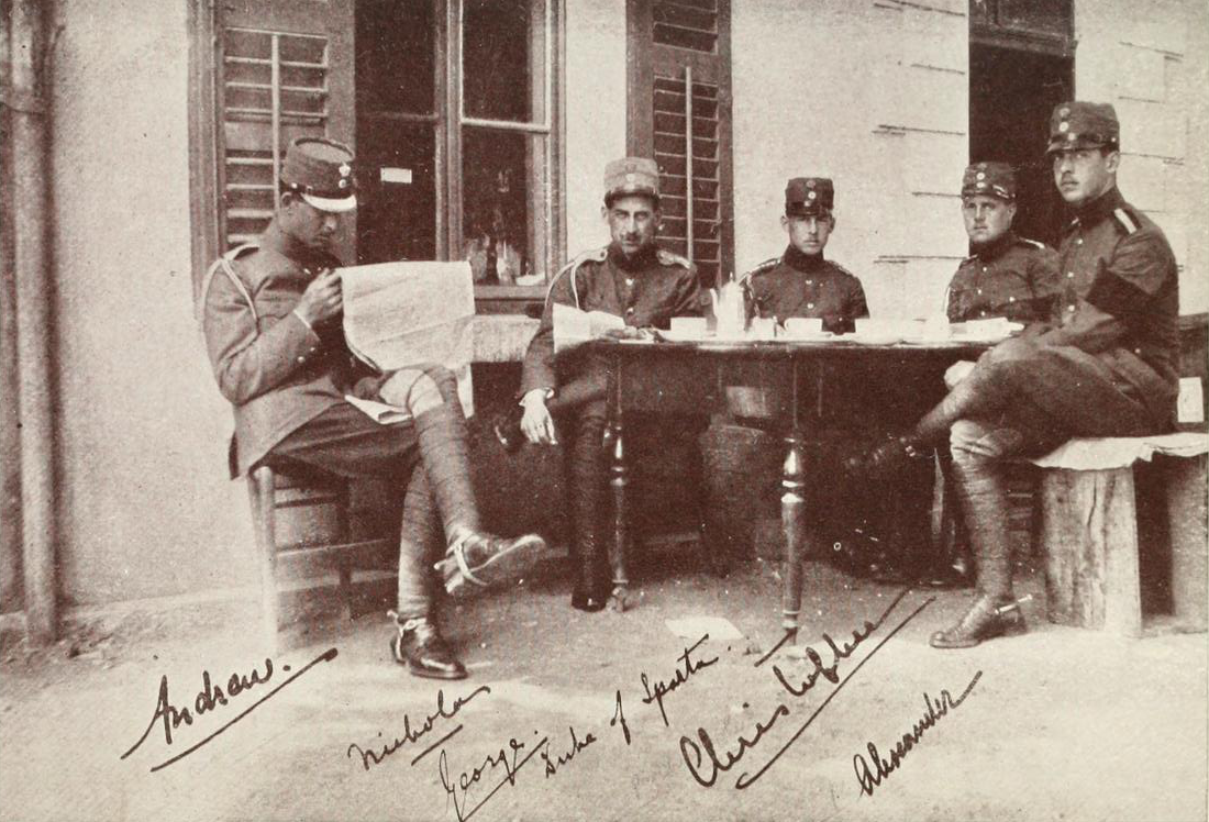 The Greek princes at the GHQ at Hadji-Beylik during the Second Balkan War with Bulgaria (1913). From left to right: Prince Andrew, Prince Nicholas, Crown Prince George, the Duke of Sparta (later King George II, 1922-1924, 1935-1946), Prince Christopher and Prince Alexander (later King Alexander, 1917-1920)